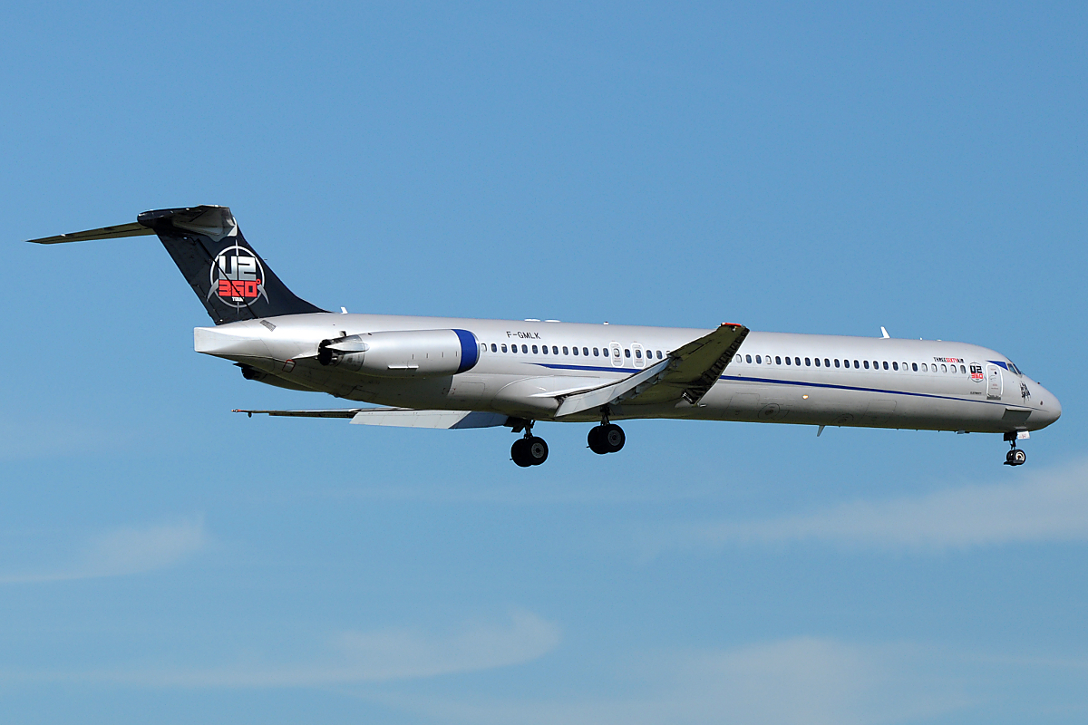 Blue Line had one aircraft, an MD-83, in use for U2's tour of Europe in "360 Air" Colors landing in Zurich.